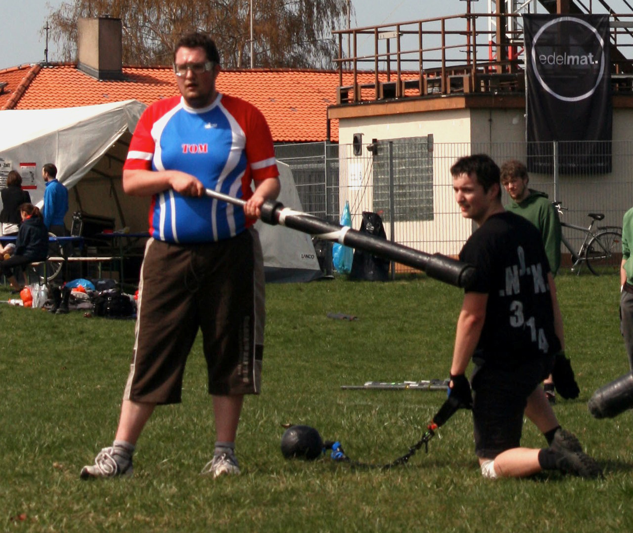 player is pinned